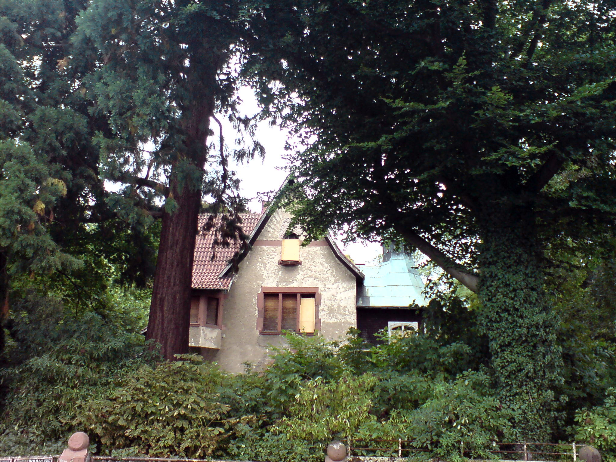 Villa Eulennest in Bensheim (Germany)